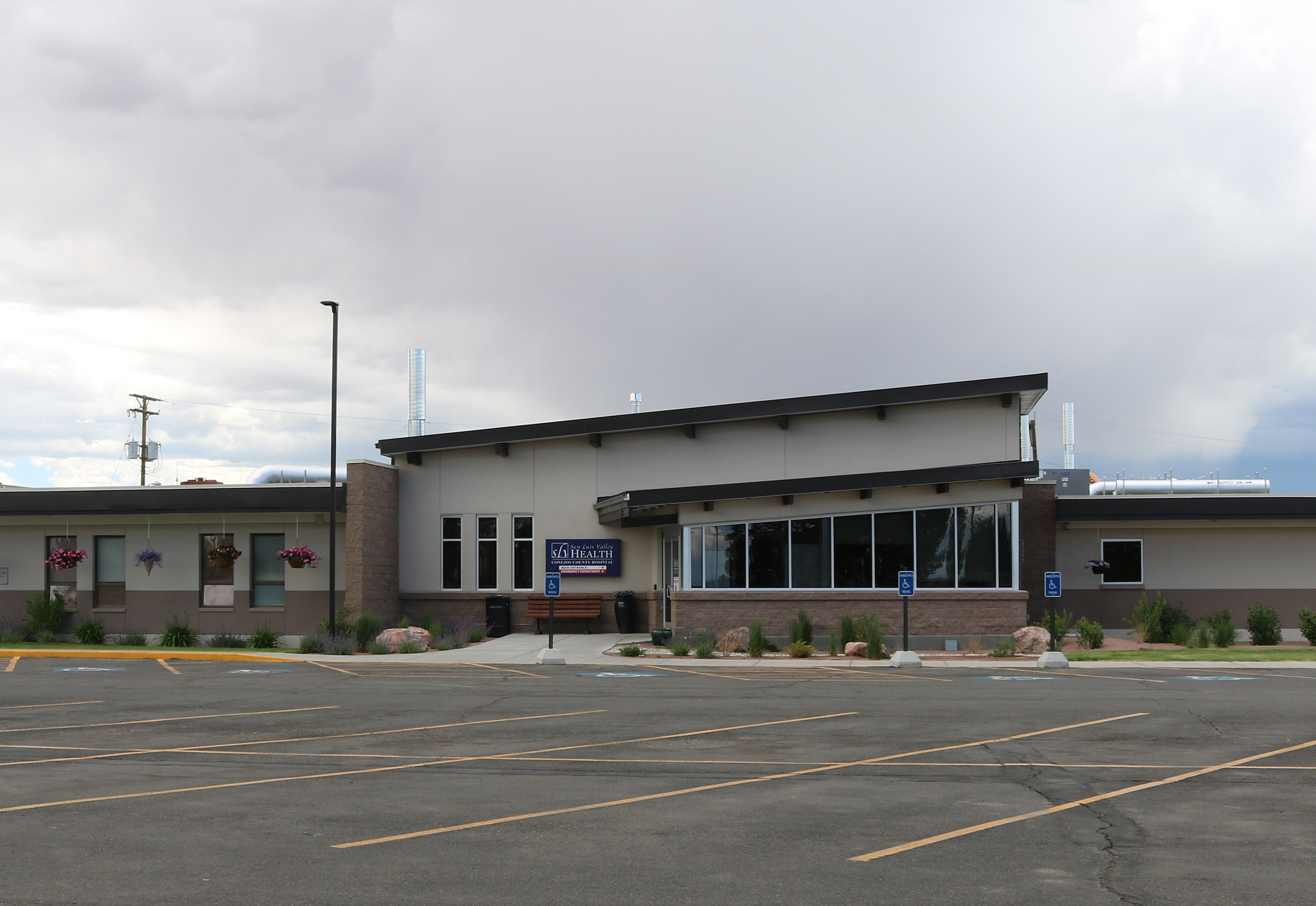 The main entrance area of the Conejos County Hospital, located at 19021 Hwy 285 in La Jara, Colorado.